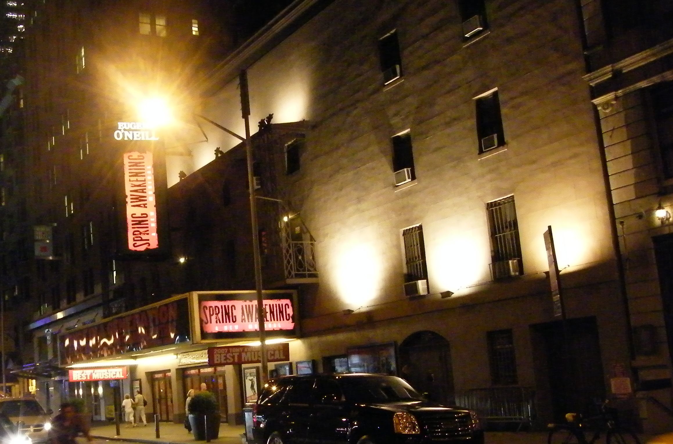 Eugene O'Neill Theatre